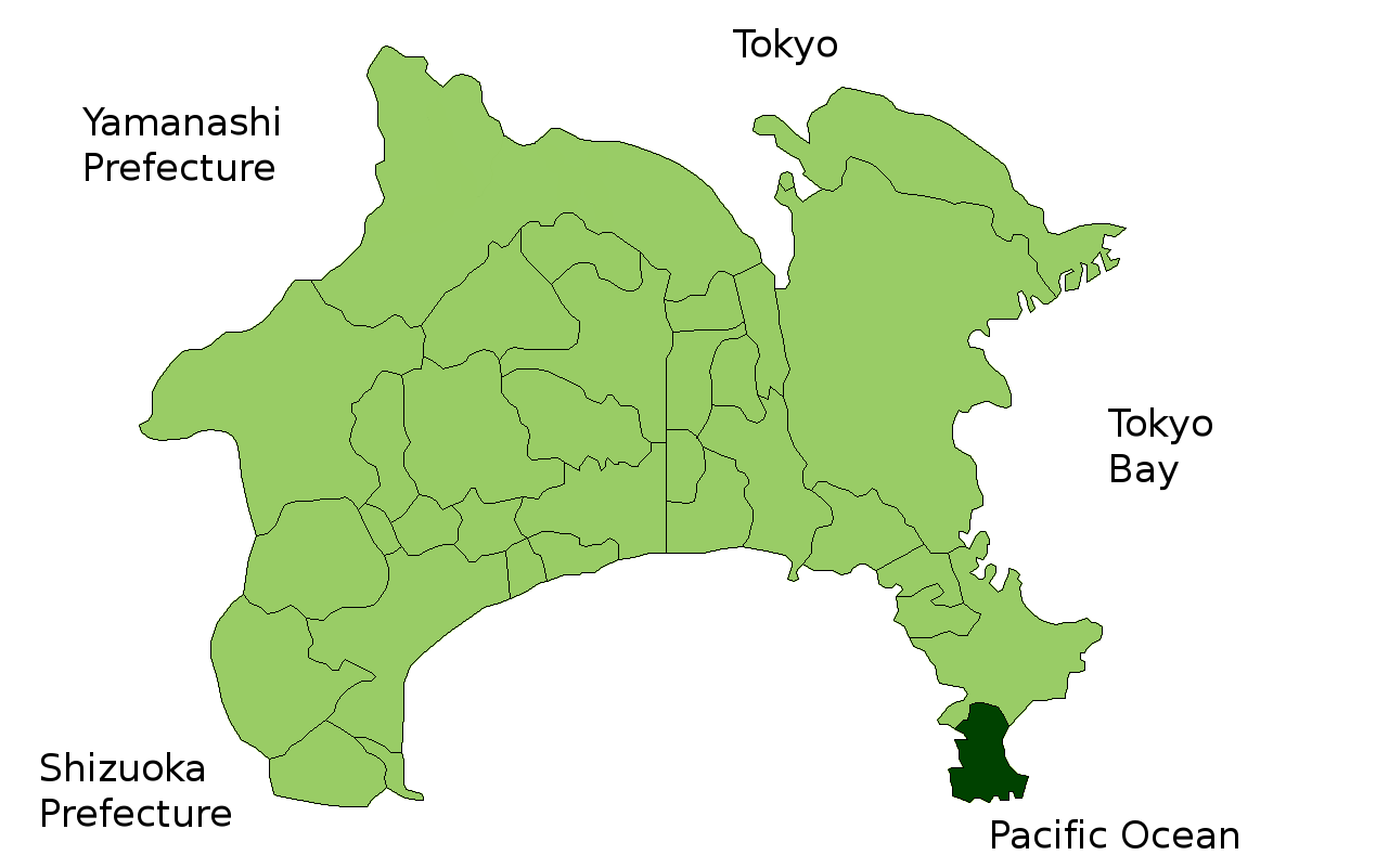 Location Map of Miura in Kanagawa Prefecture, Japan